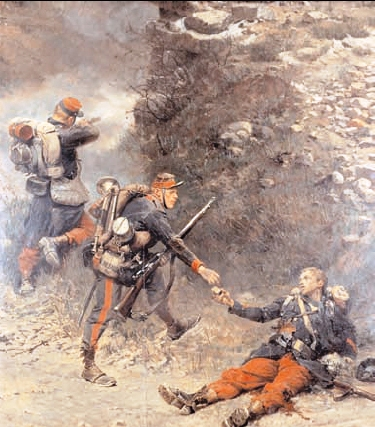 Fragment of the Battle of Champigny 10 × 50 m (10.9 × 54.6 yd) Panorama